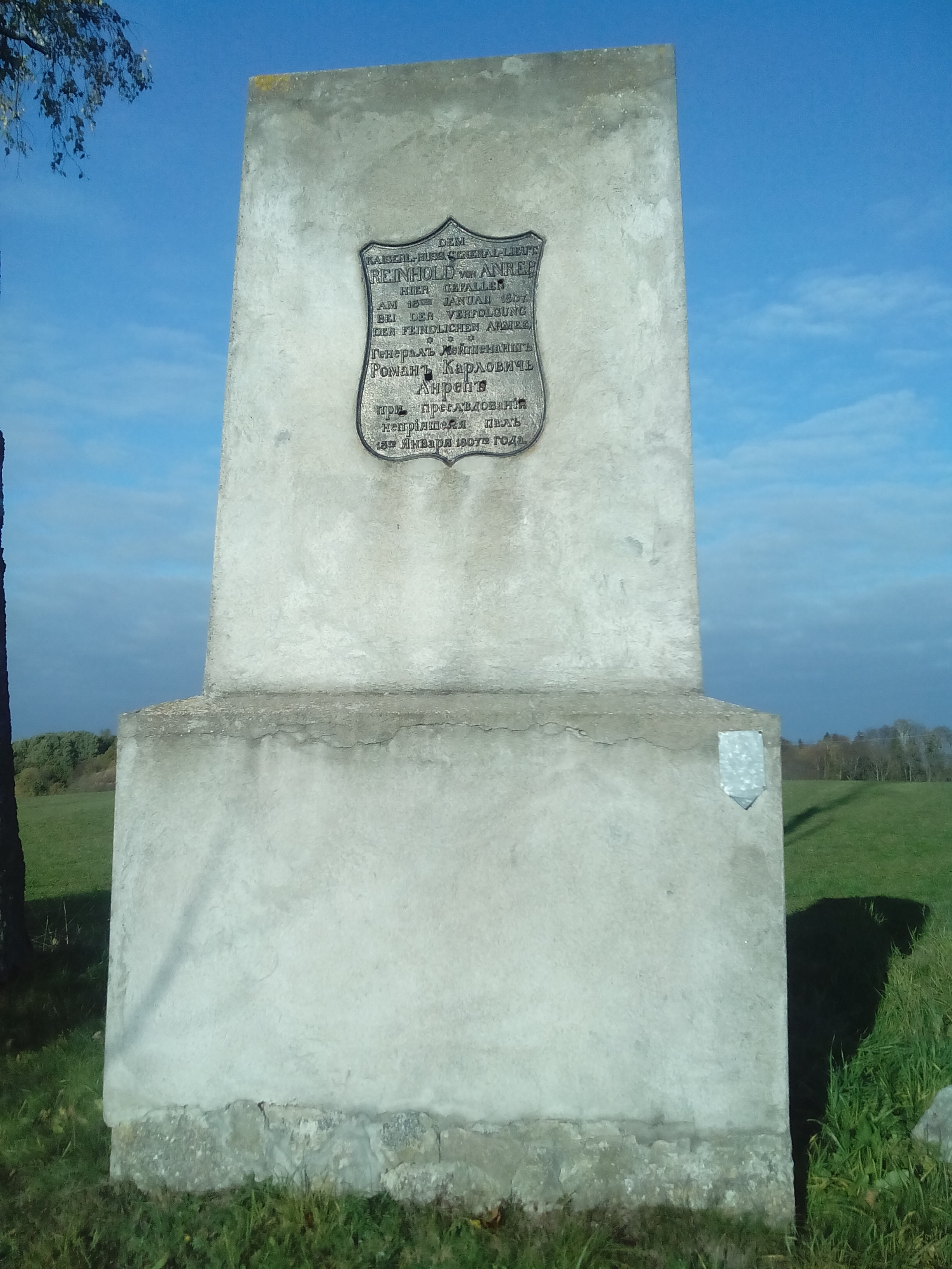 Memorial stone of general von Anrep